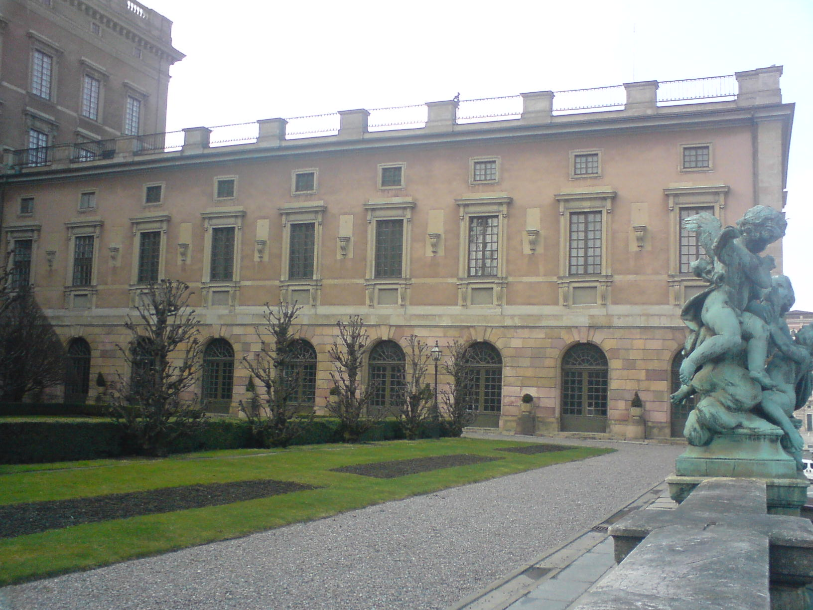 The northeast wing of the Royal Palace in Stockholm, called ‘Biblioteksflygeln’, “the Library Wing”, as the two upper stocks of it houses the Castle Library, Bernadottebiblioteket, once also the Royal Library (the National Library) ‘Kungliga Biblioteket’. The lower stock houses a musem “Gustav III:s Antiquities Museum”, ‘Gustav III:s antikvitetsmuseum’.